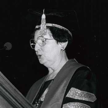 Eva Kushner Giving A Speach